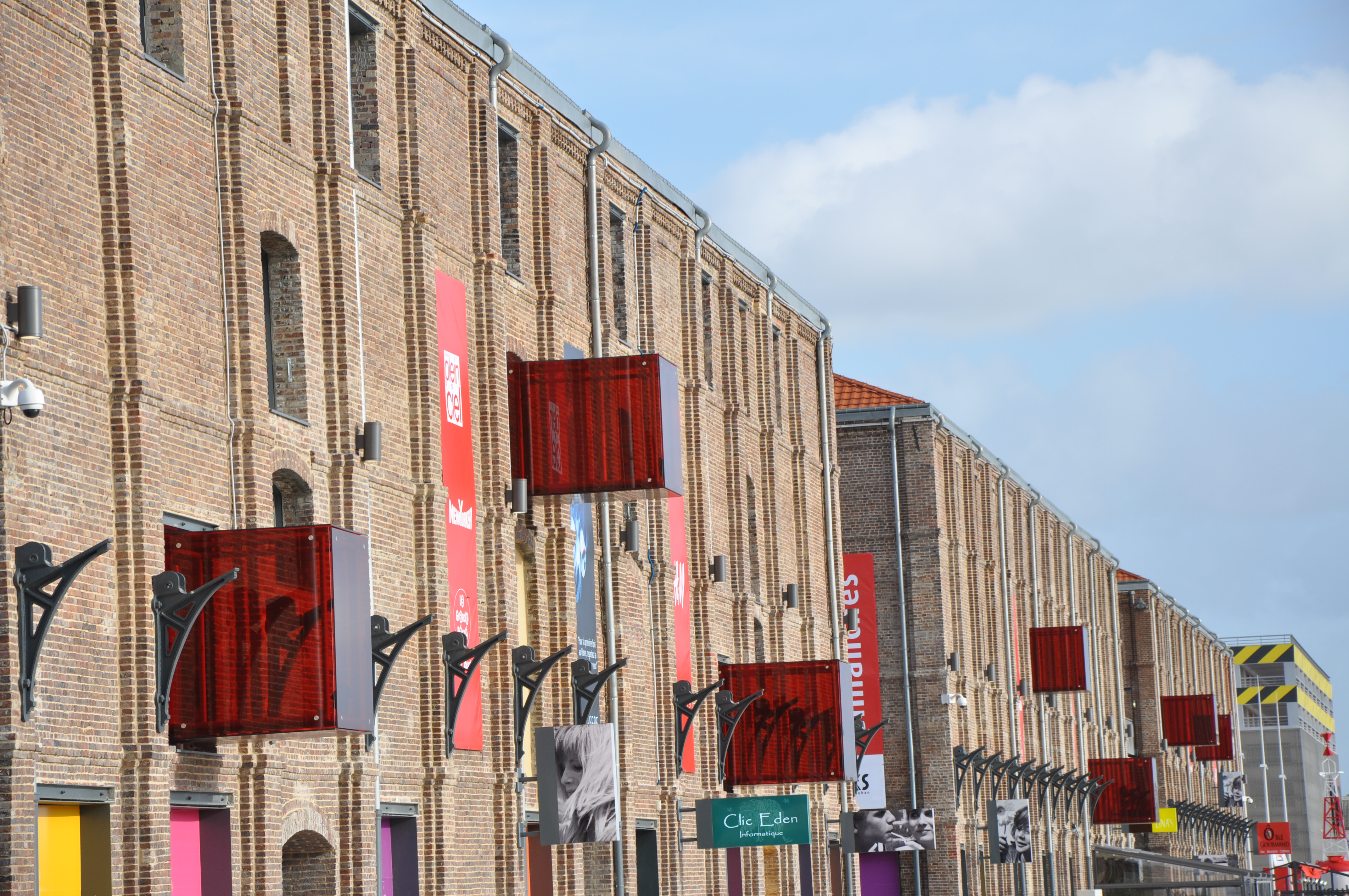 Restored docks Vauban in Le Havre (France)